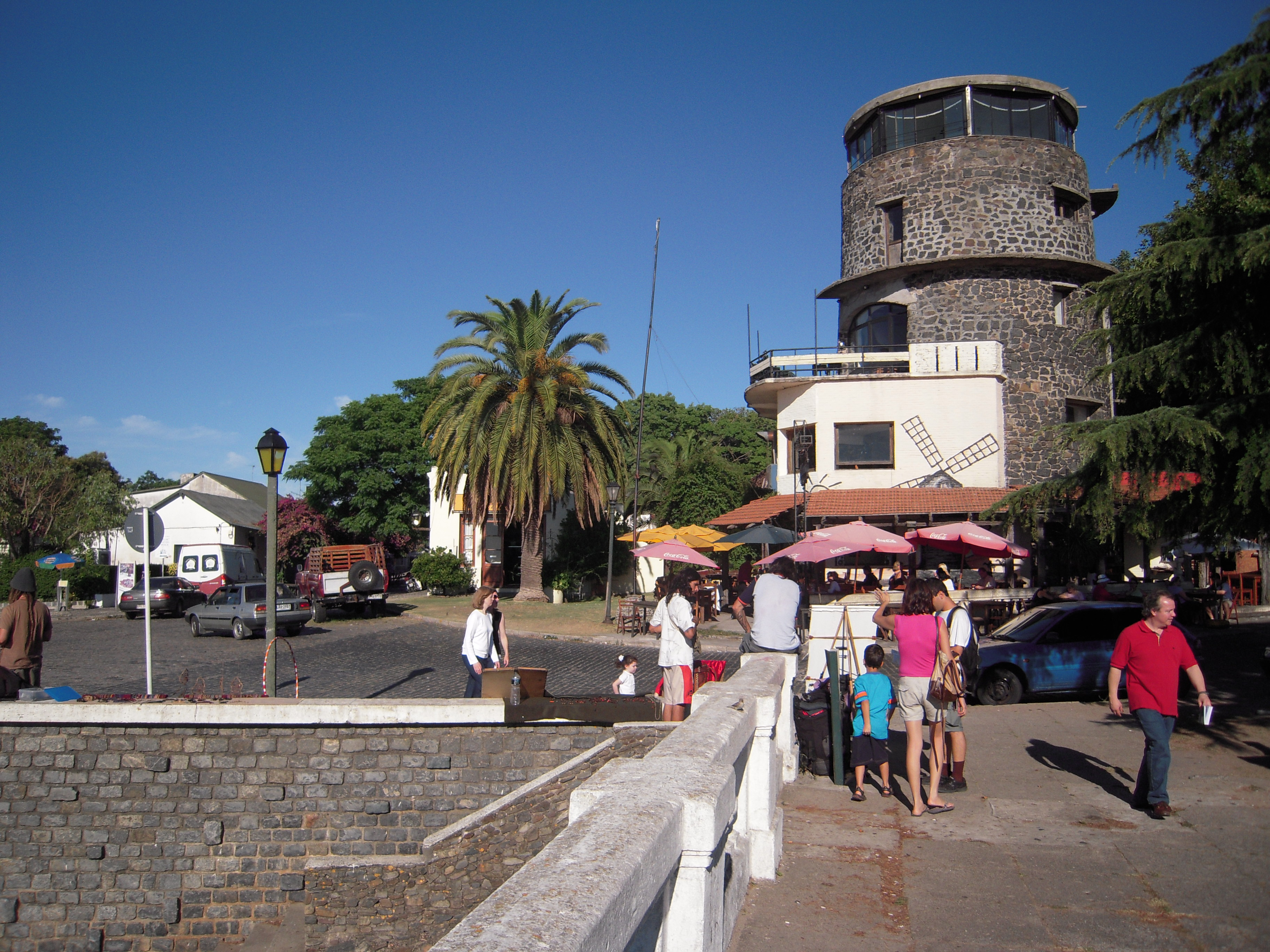 Colonia del Sacramento, water front by street De Santa Rita